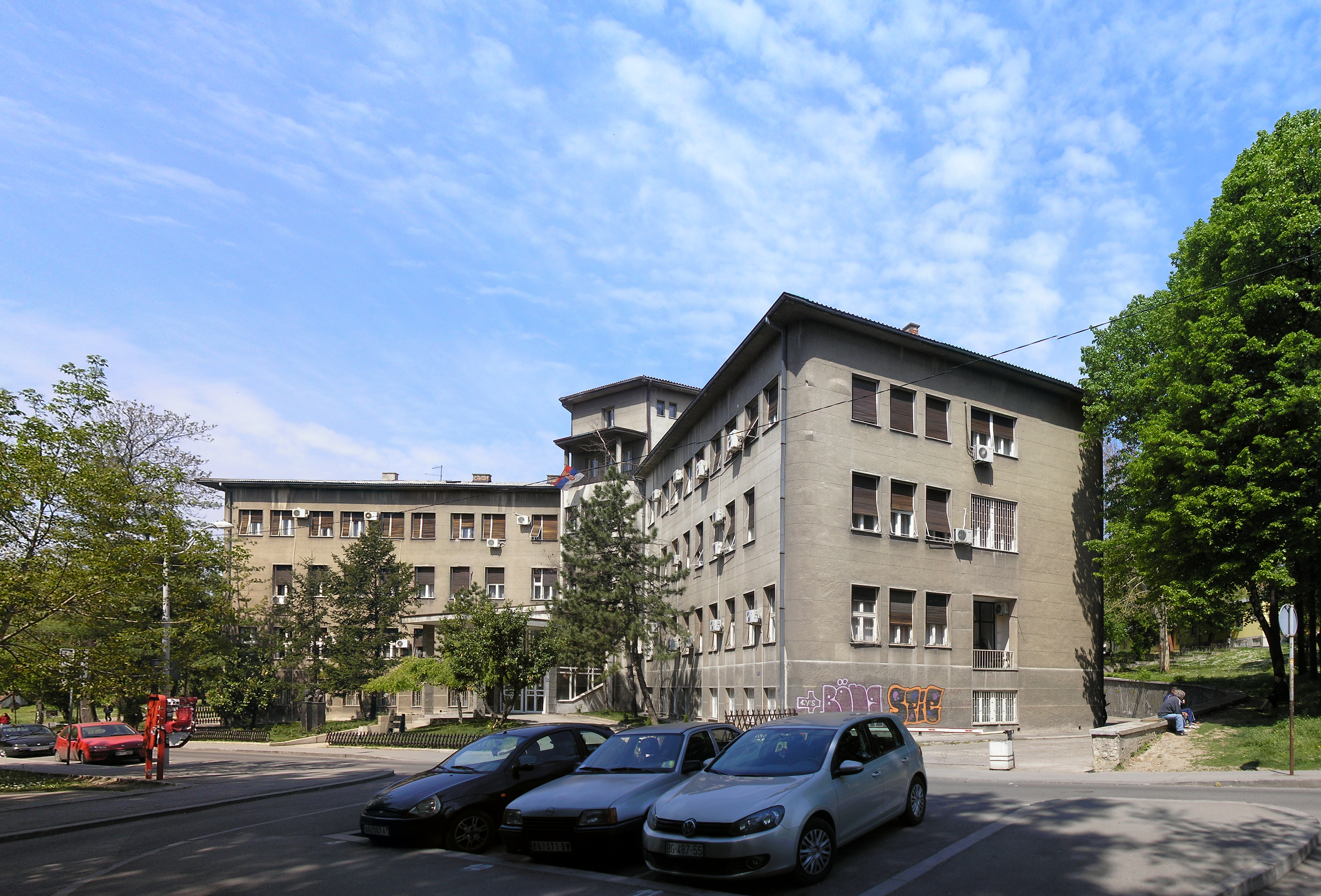 Building of Faculty of Stomatology. Belgade, Serbia.